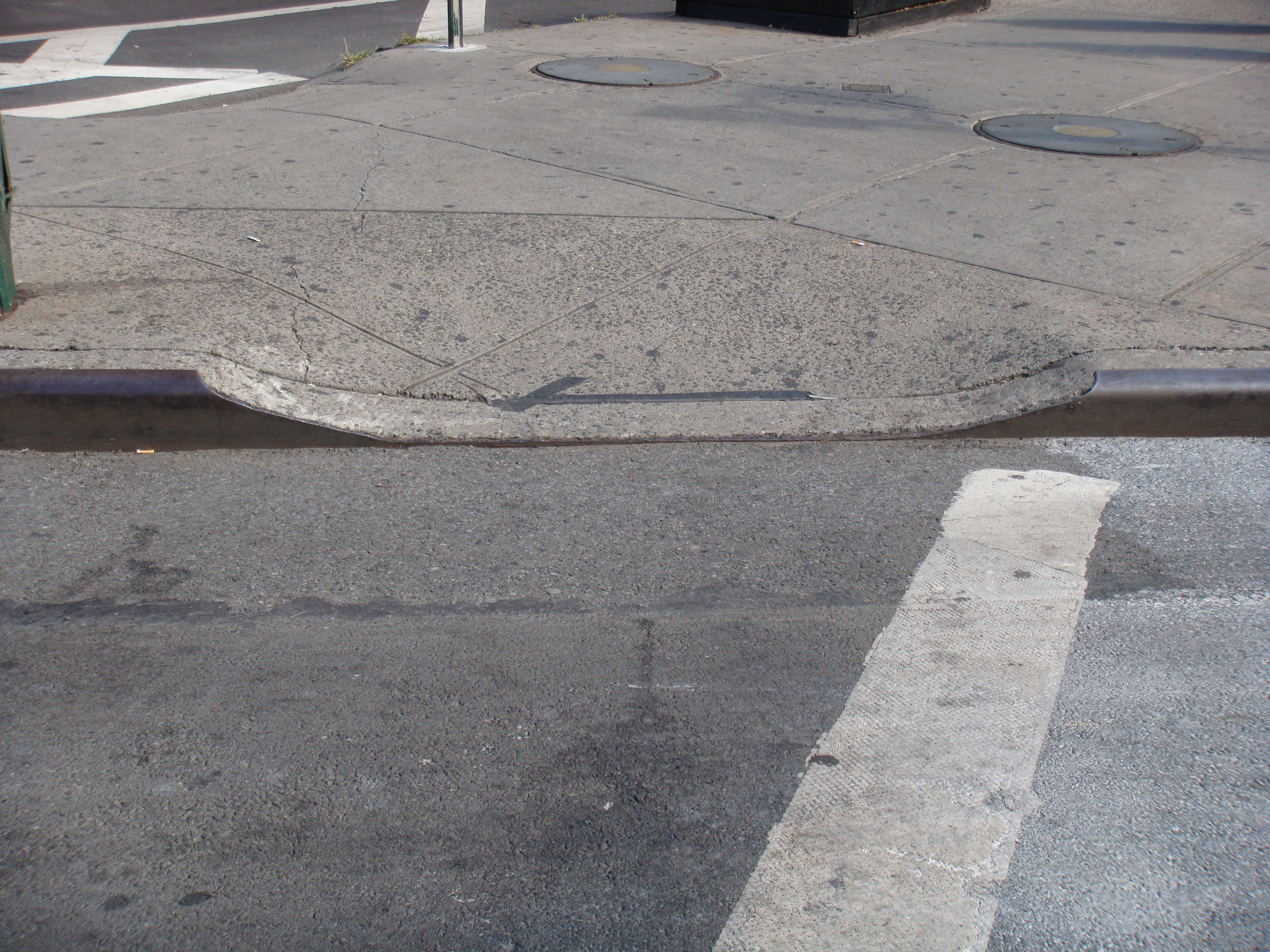 This photo is of Wikis Take Manhattan goal code R13, Curb cut.